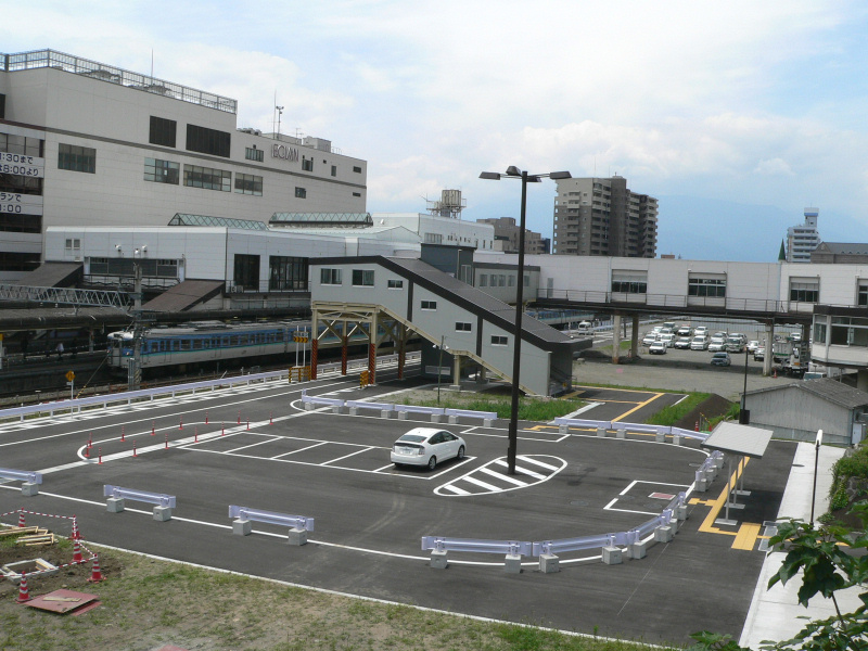 It uses it in a Japanese version.